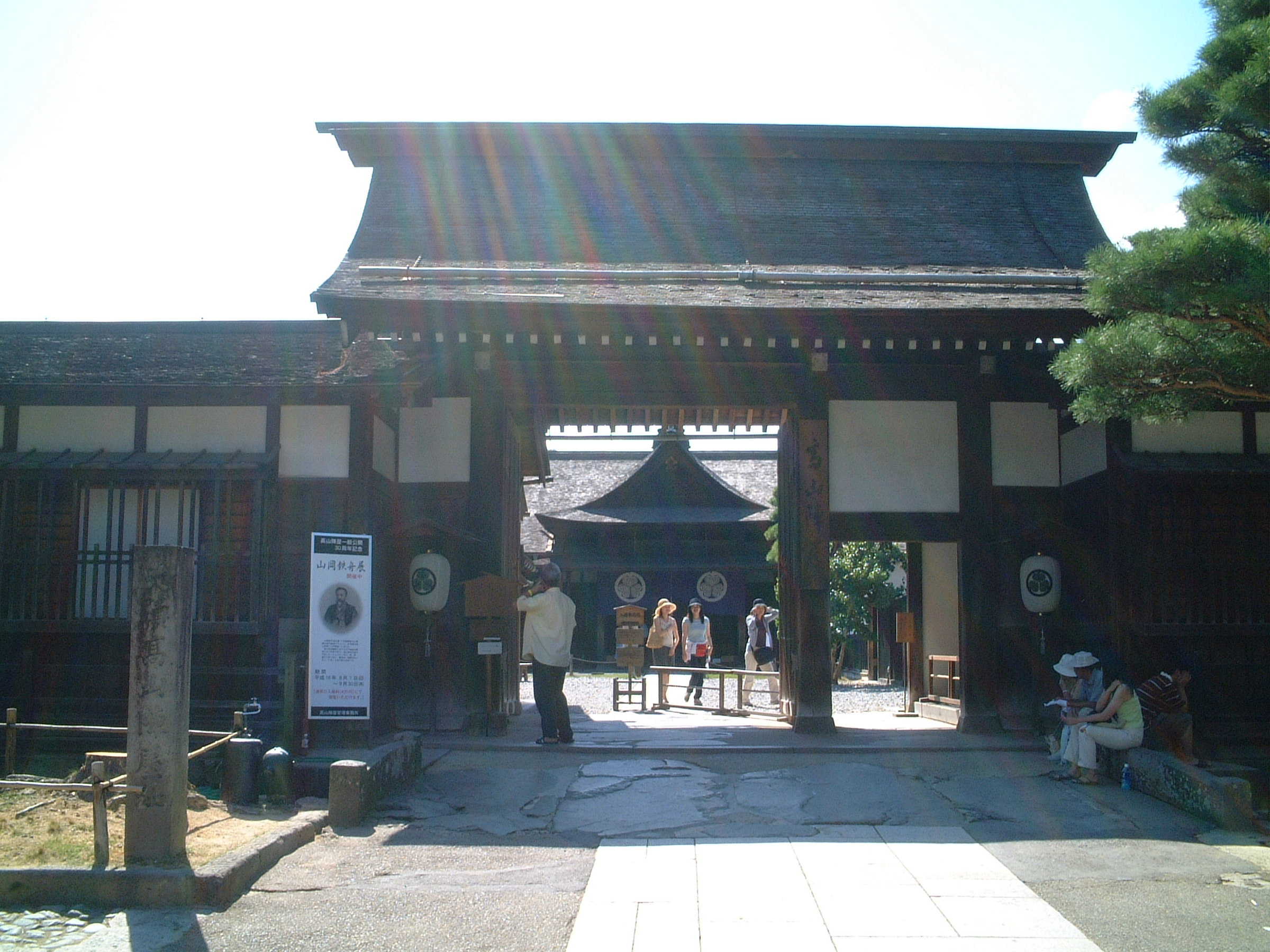 Takayama jin'ya (city hall in Edo period) at Takayama city, Gifu prefecture, Japan.